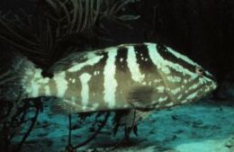 Nassau Grouper (Epinephelus striatus) from the NOAA library